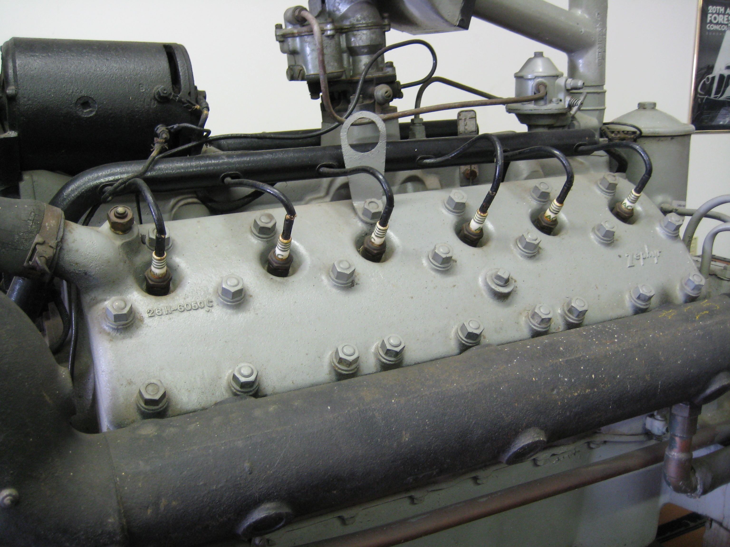 LeMay Open House, August 2011.